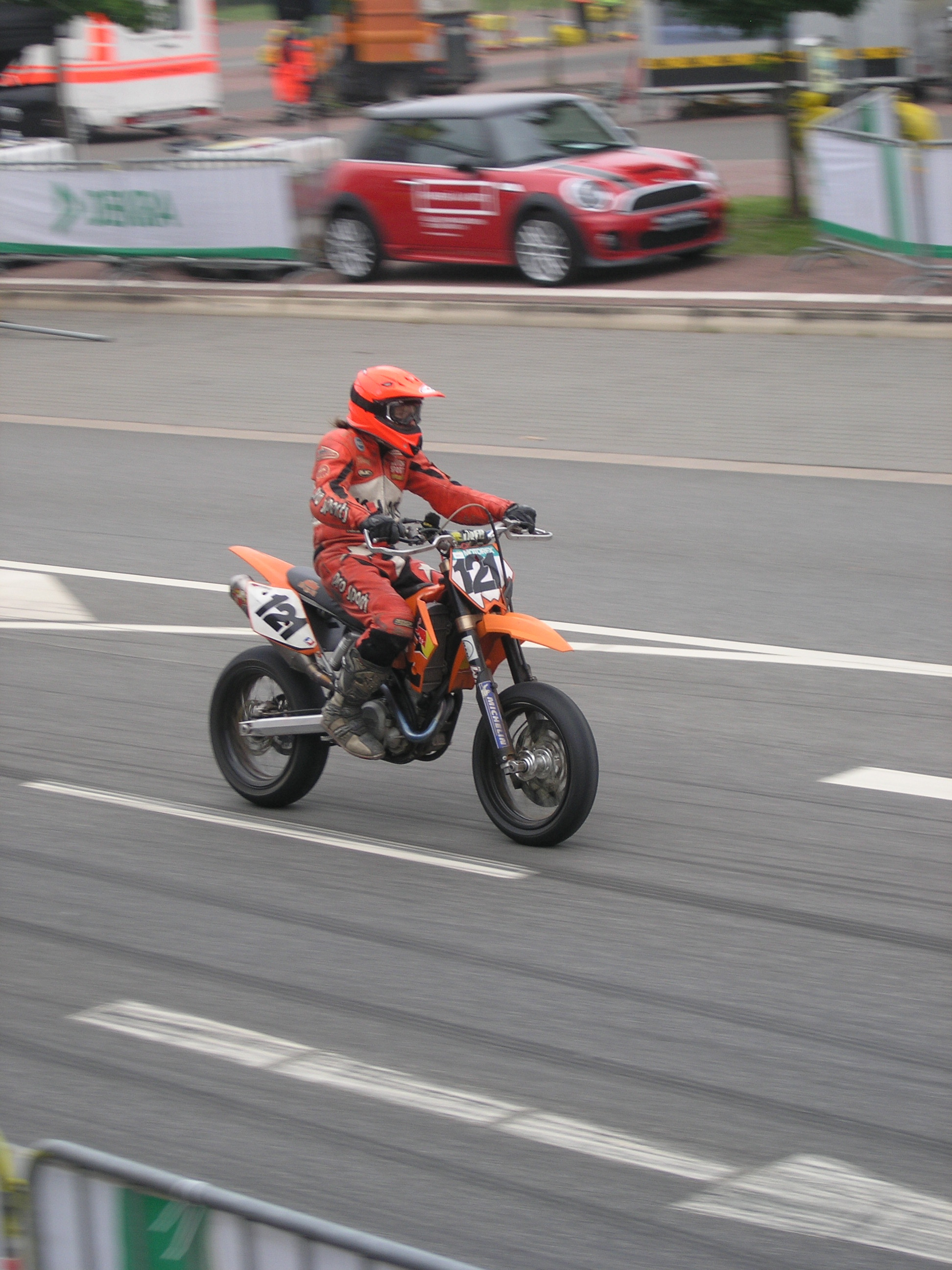 Rigo Stein (#121) from Quierschied (D) at Wendelinuspark Racing Circuit on a KTM 450 SX.